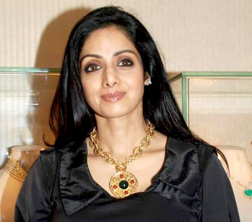 Sridevi during an audio launch.